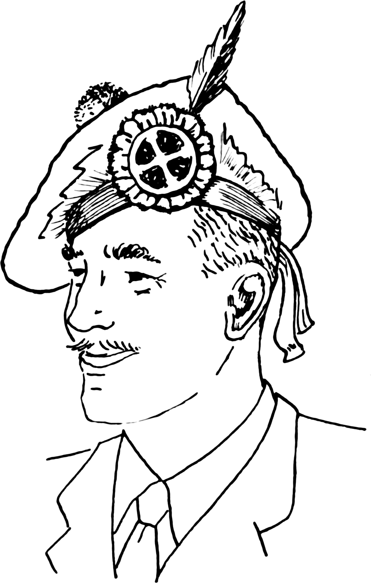 Line art representation of Tam-O'-Shanter